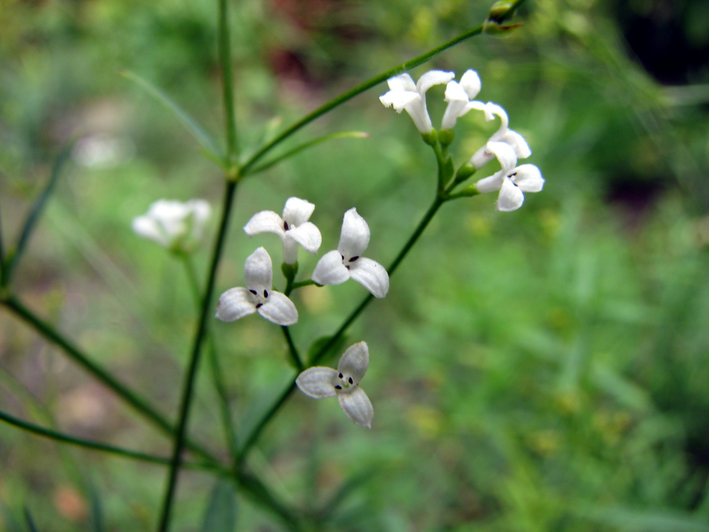 Asperula tinctoria, in Wrocław University Botanical Garden, Poland.